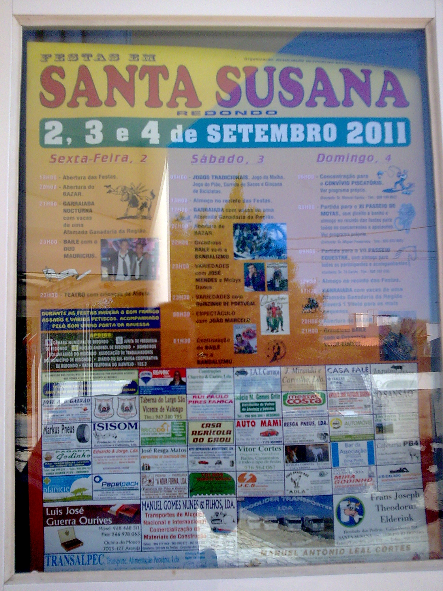 Event of Sta Suzana's